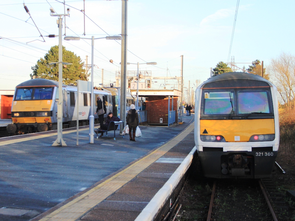 Great Anglia trains are timetabled to connect at Manningtree. On the left 90003 arrives with a Norwich to London service on the main line, while on the right 321360 is ready to leave on a Mayflower Line service to Harwich.